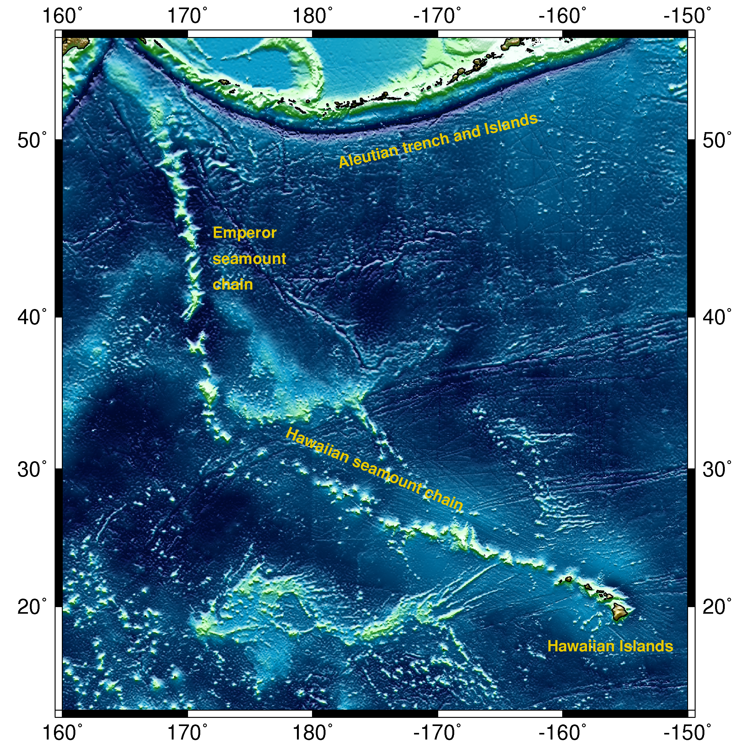 Map of the Hawaii-Emperor seamount chain and seafloor topography